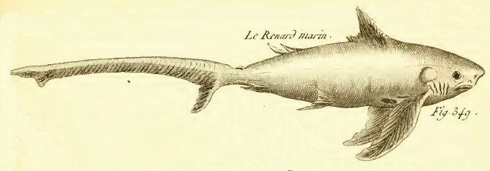 Illustration of Squalus vulpinus (=Alopias vulpinus).